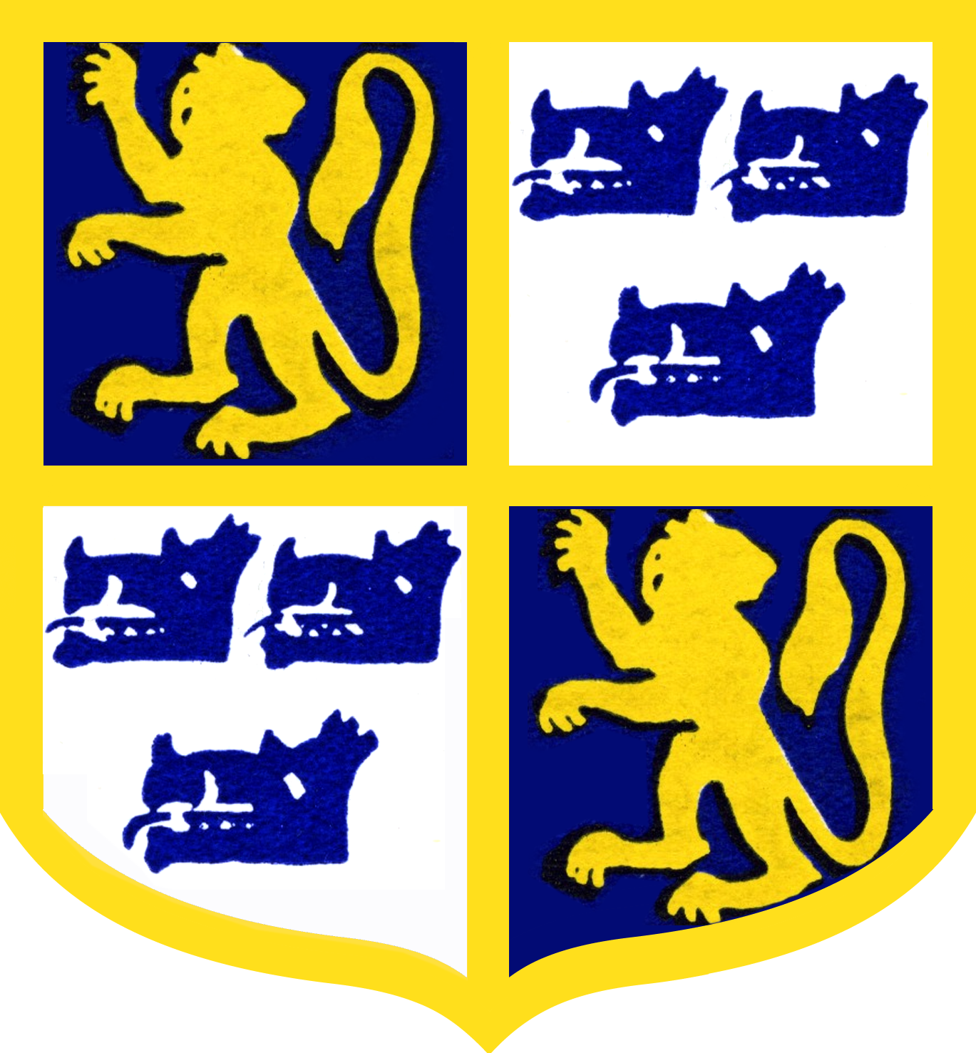 Crest of Chelsea College of Science and Technology (University of London)